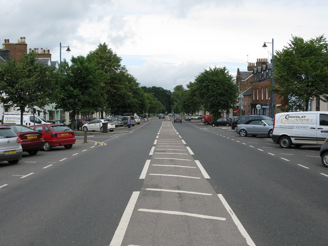 Drumlanrig Street, Thornhill (A76) Looking north along Drumlanrig Street from the Mercat Cross.